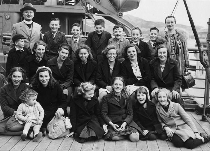 Description: Children's Overseas Reception Board (CORB) group bound for New Zealand. At the outbreak of World War Two, thousands of British children were sent to the Dominions (Canada, Australia, New Zealand and South Africa) before attacks on shipping prematurely ended the scheme. Date: 1940 Our Catalogue Reference: DO 131/15 This image is from the collections of The National Archives. Feel free to share it within the spirit of the Commons. For high quality reproductions of any item from our collection please contact our image library.